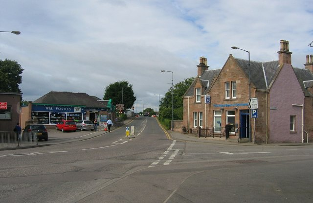 Muir of Ord